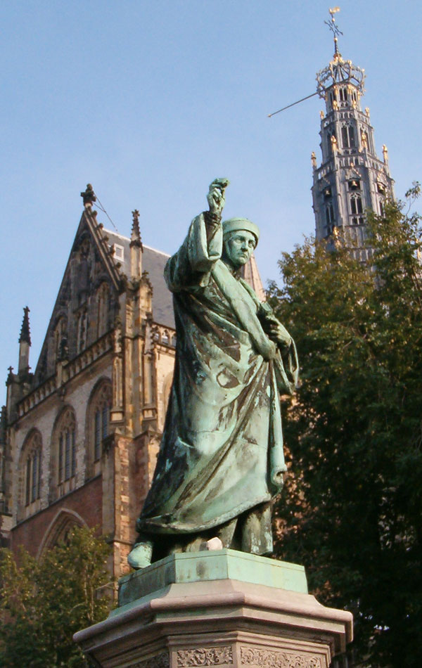 Statue of Laurens Janszoon Coster on the Grote Markt in Haarlem. Picture taken by Guusbosman on September 5th, 2004.